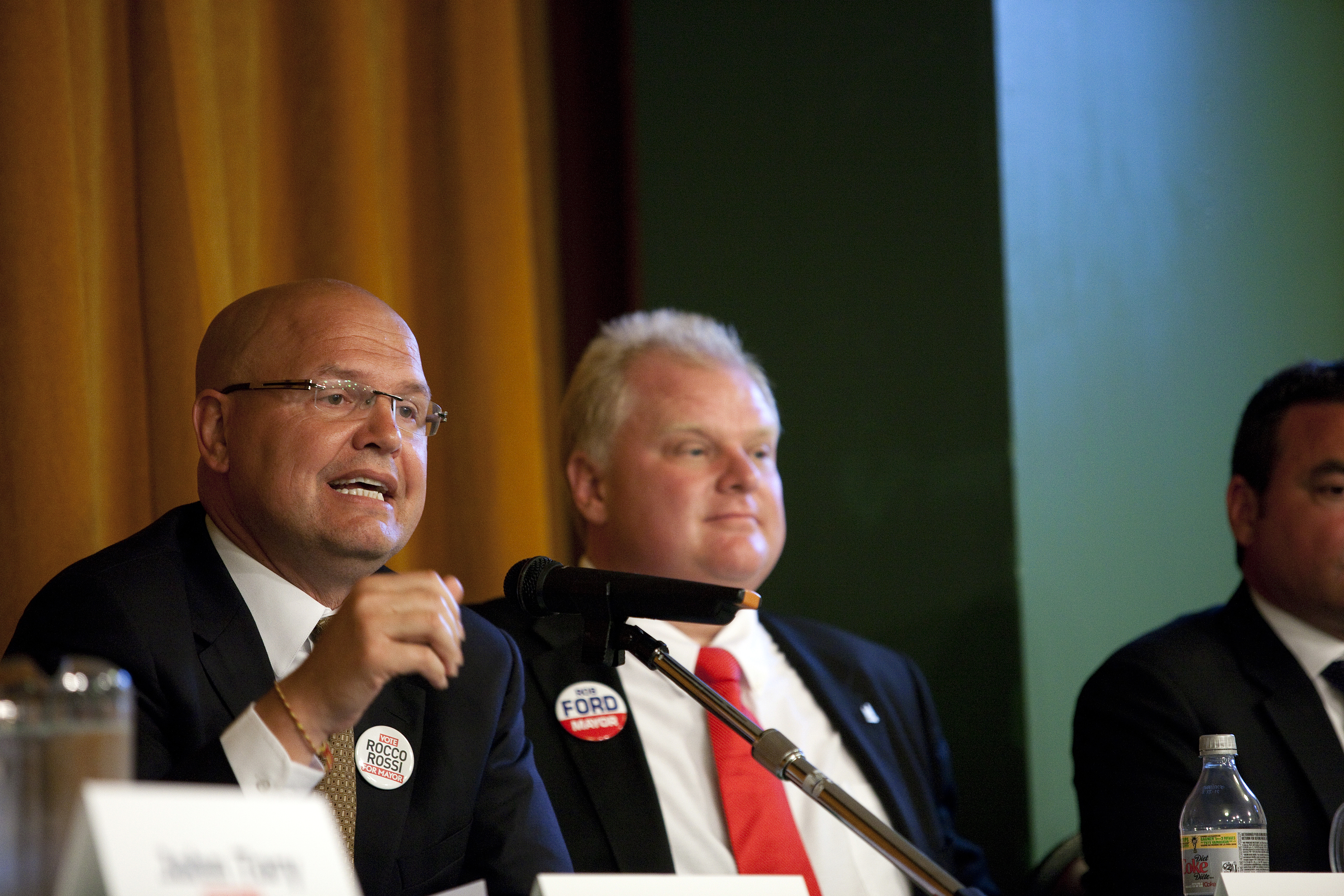 Rocco Rossi and Rob Ford at the Parkview Hills Community Association mayoral election debate. Toronto, Ontario, Canada.